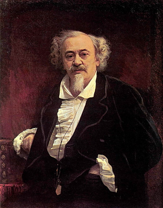 Portret of russian actor Vasiley Samoylov by Ivan Kramskoy